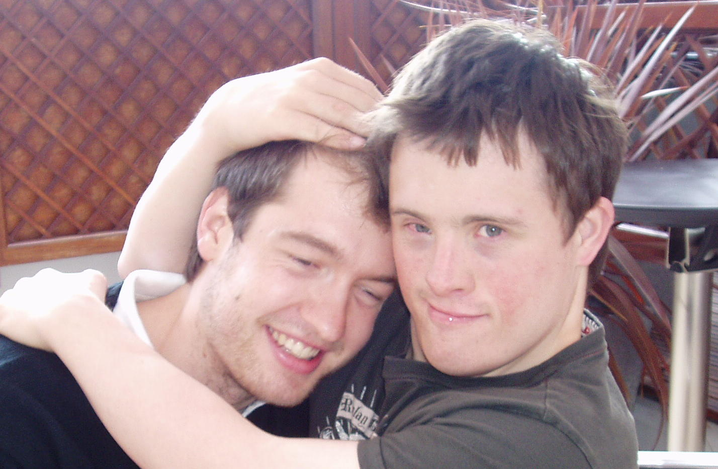 This is a photo of the brothers William and Tommy Jessop.